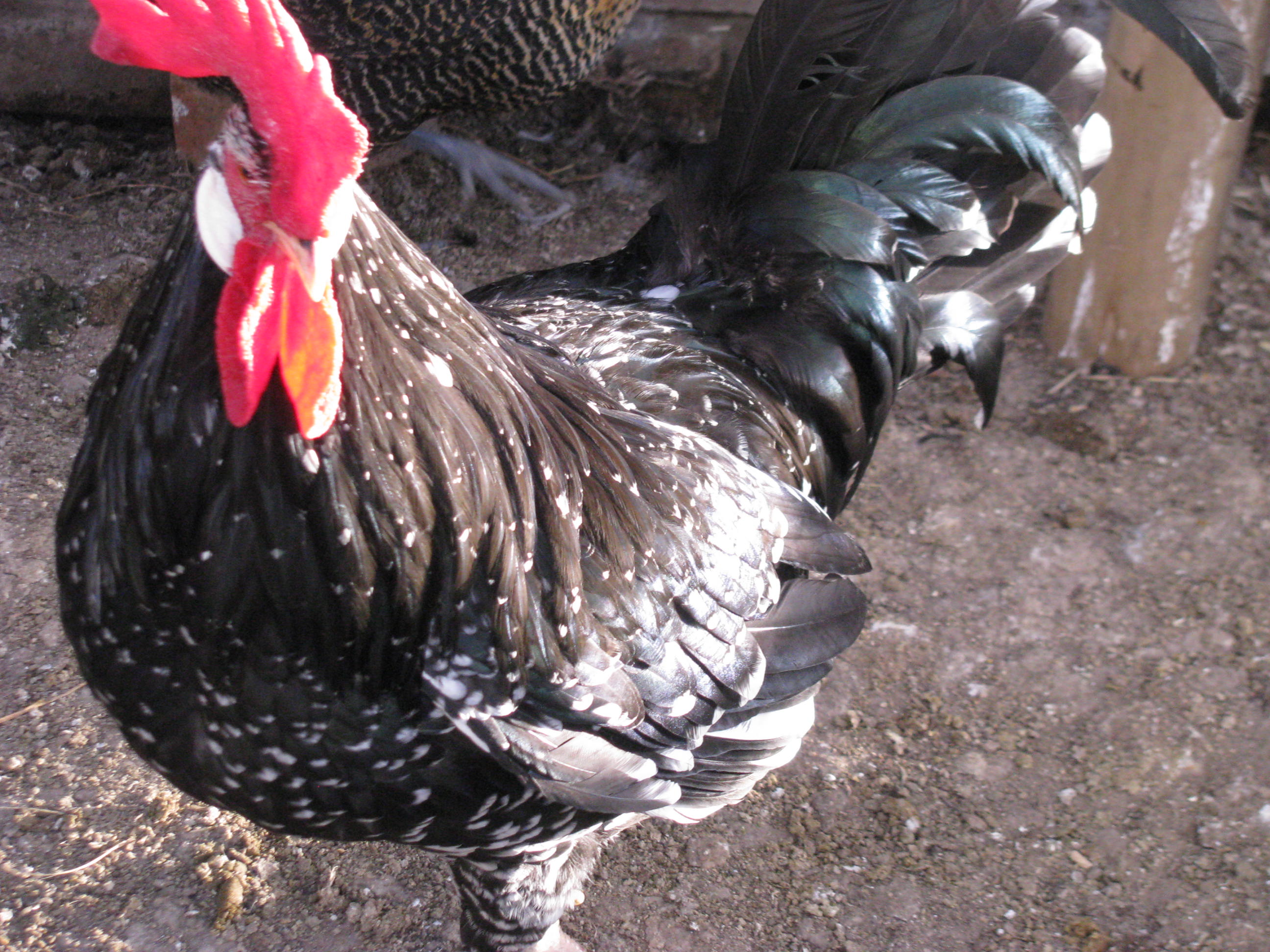 Australian Ancona Rooster